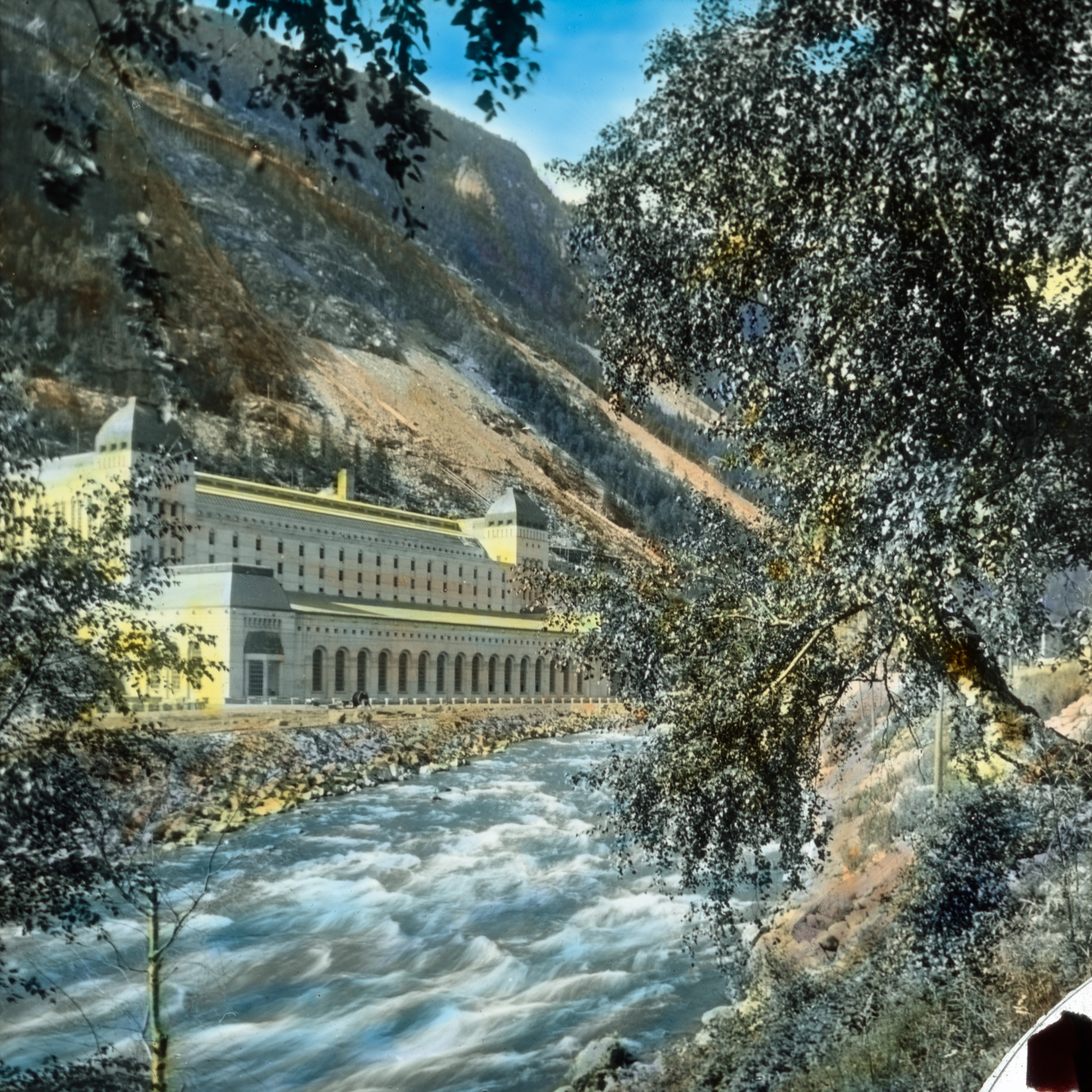 Håndkolorert dias. Vannkraftverket Saaheim. Elven Måna renner forbi kraftstasjonen.